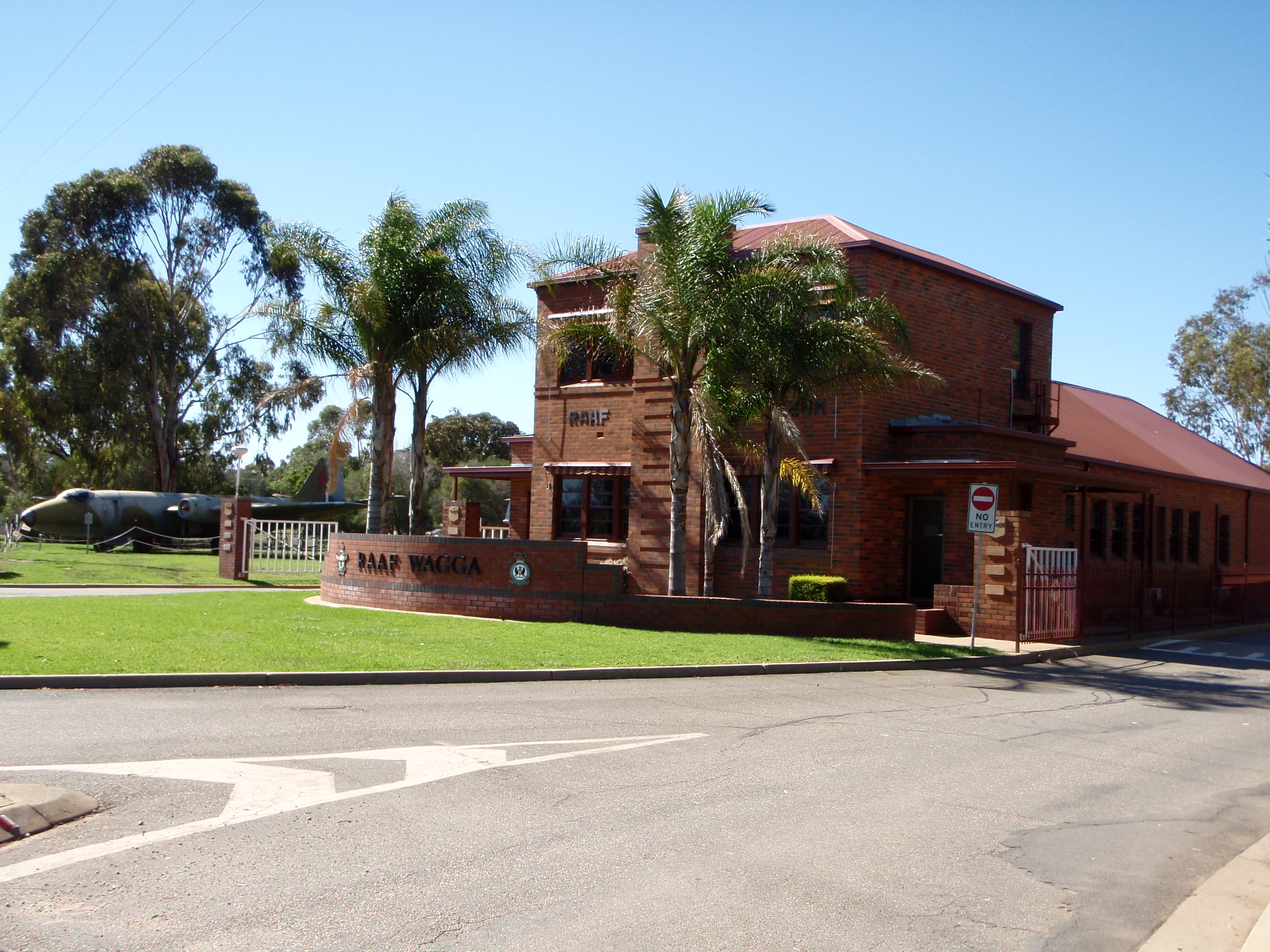 Front of RAAF Base in Wagga Wagga, NSW